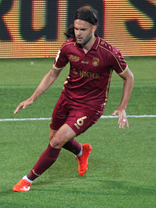 19.09.2016. Россия, Санкт-Петербург, «Петровский», Большая арена. РОСГОССТРАХ-Чемпионат России, 7-й тур, «Зенит» — «Рубин». На снимке в синей форме: .